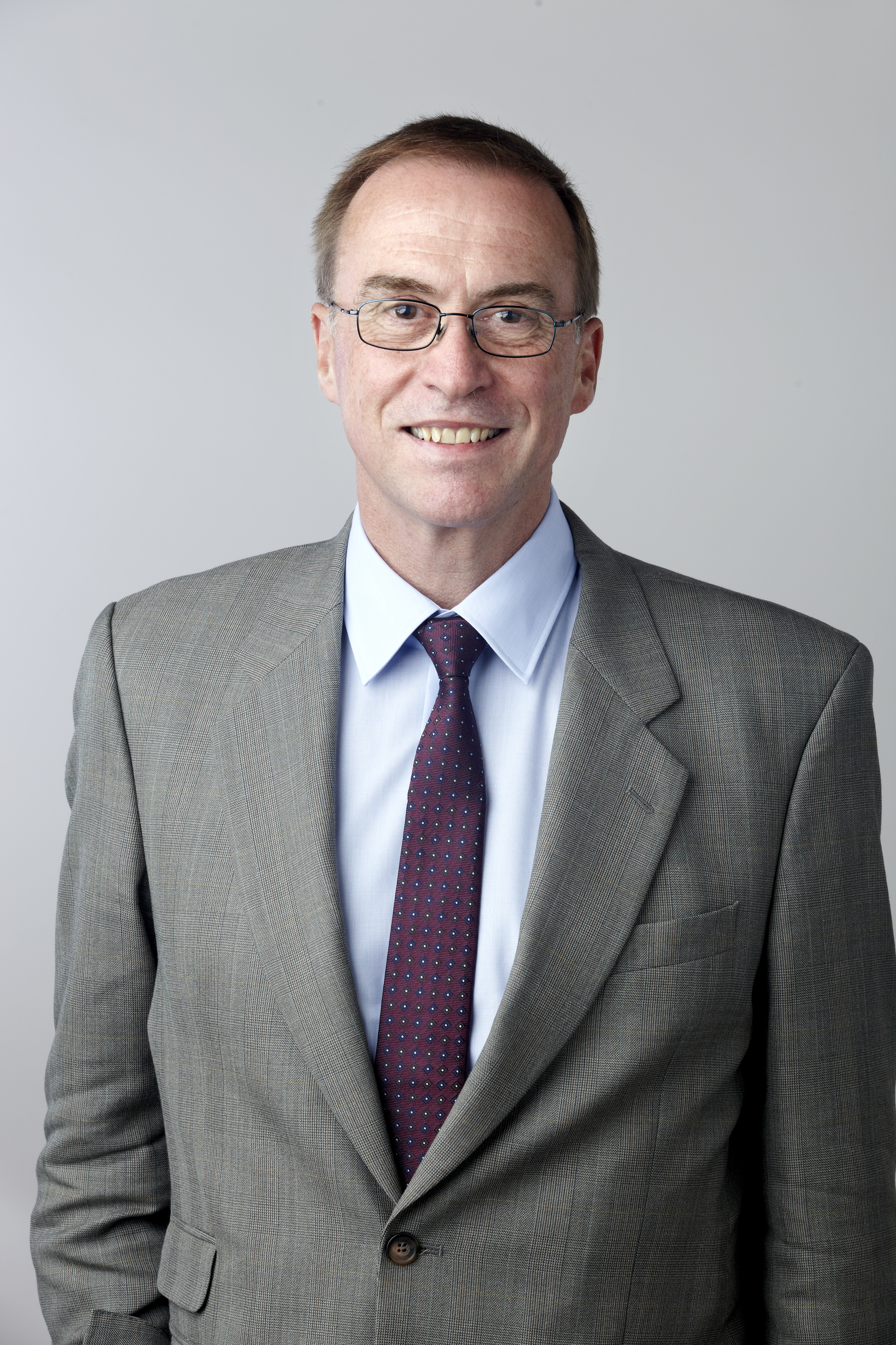 Professor Simon Lilly FRS, Royal Society Fellow elected 2014 Attribution: The Royal Society